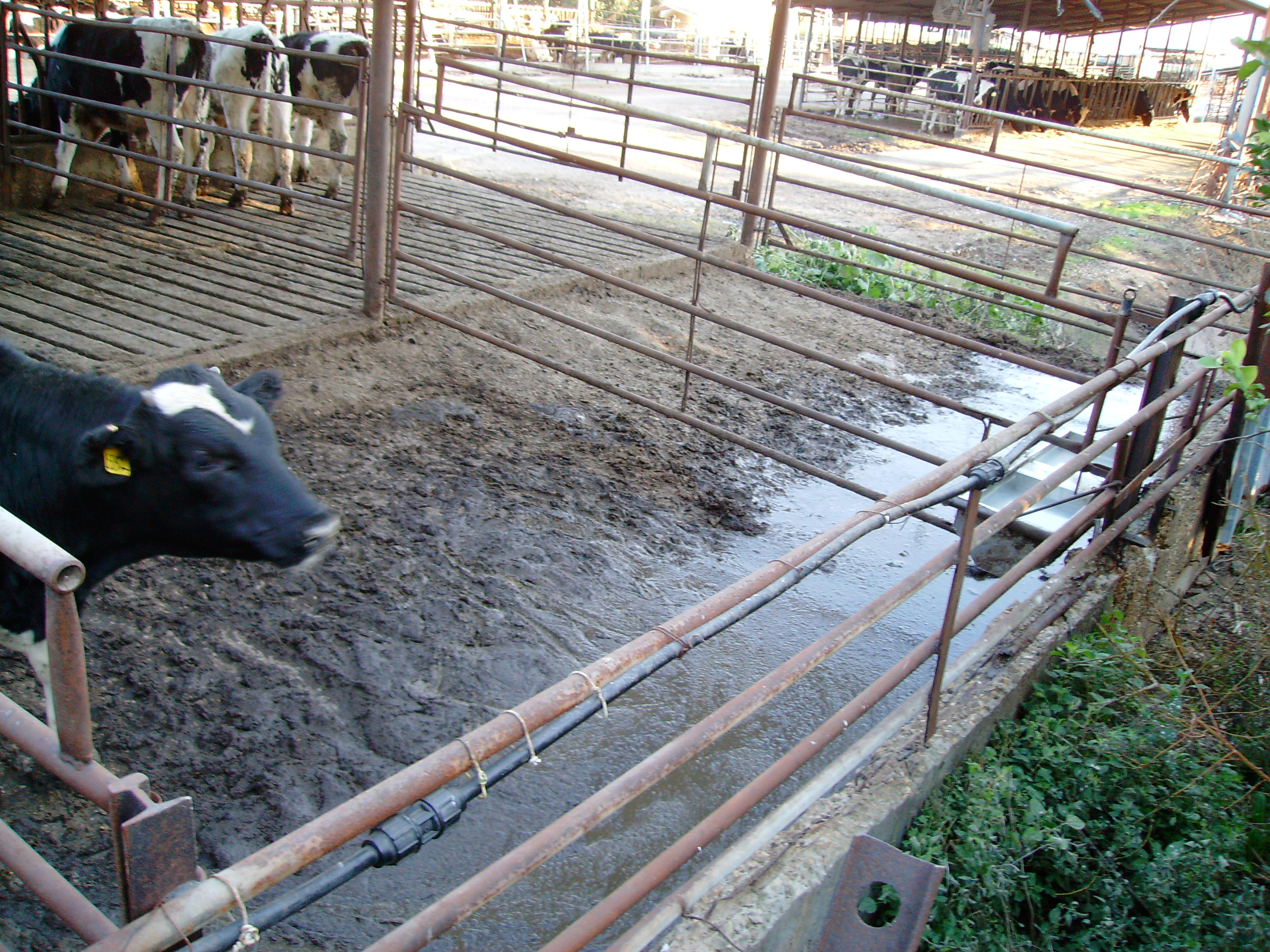 The cows in this cowshed are forced to wade in their own liquid excrements in order to drink water from the troughs. The owner has over 1500 cows, yet he is unable to stop using this decaying cowshed that holds less then ten.